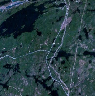 Satellite image of Strathcona Township in Temagami, Ontario, Canada.